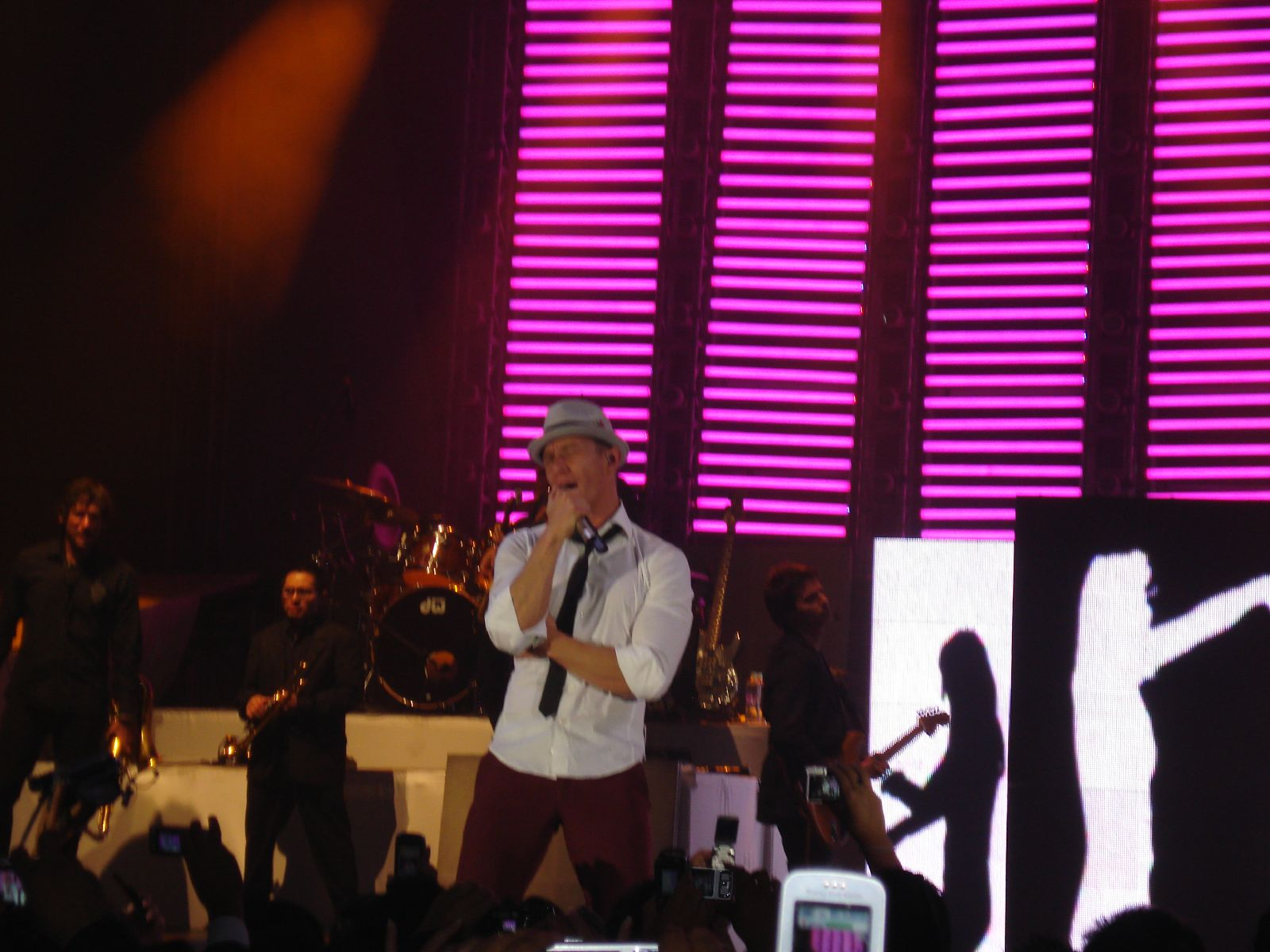 Erick Rubin, is a singer and actor mexican